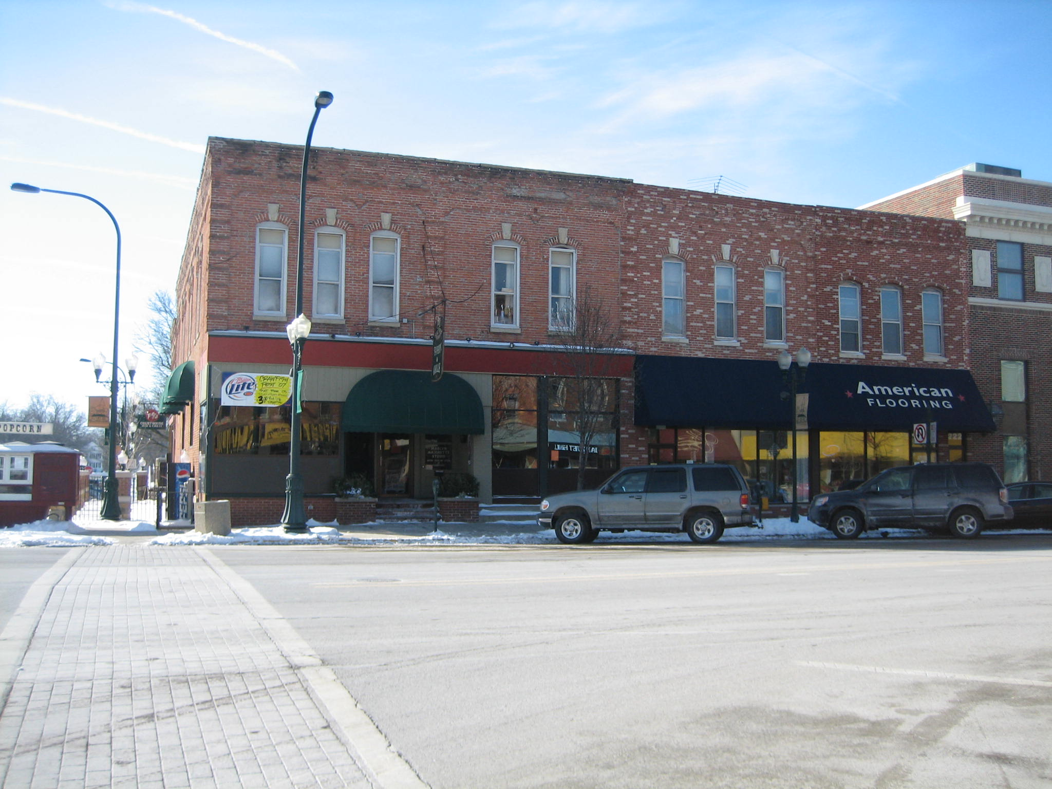 Waterman Block Buildings in the 200 block of West State Street. Sycamore, Illinois, National Register of Historic Places as part of the Sycamore Historic District.